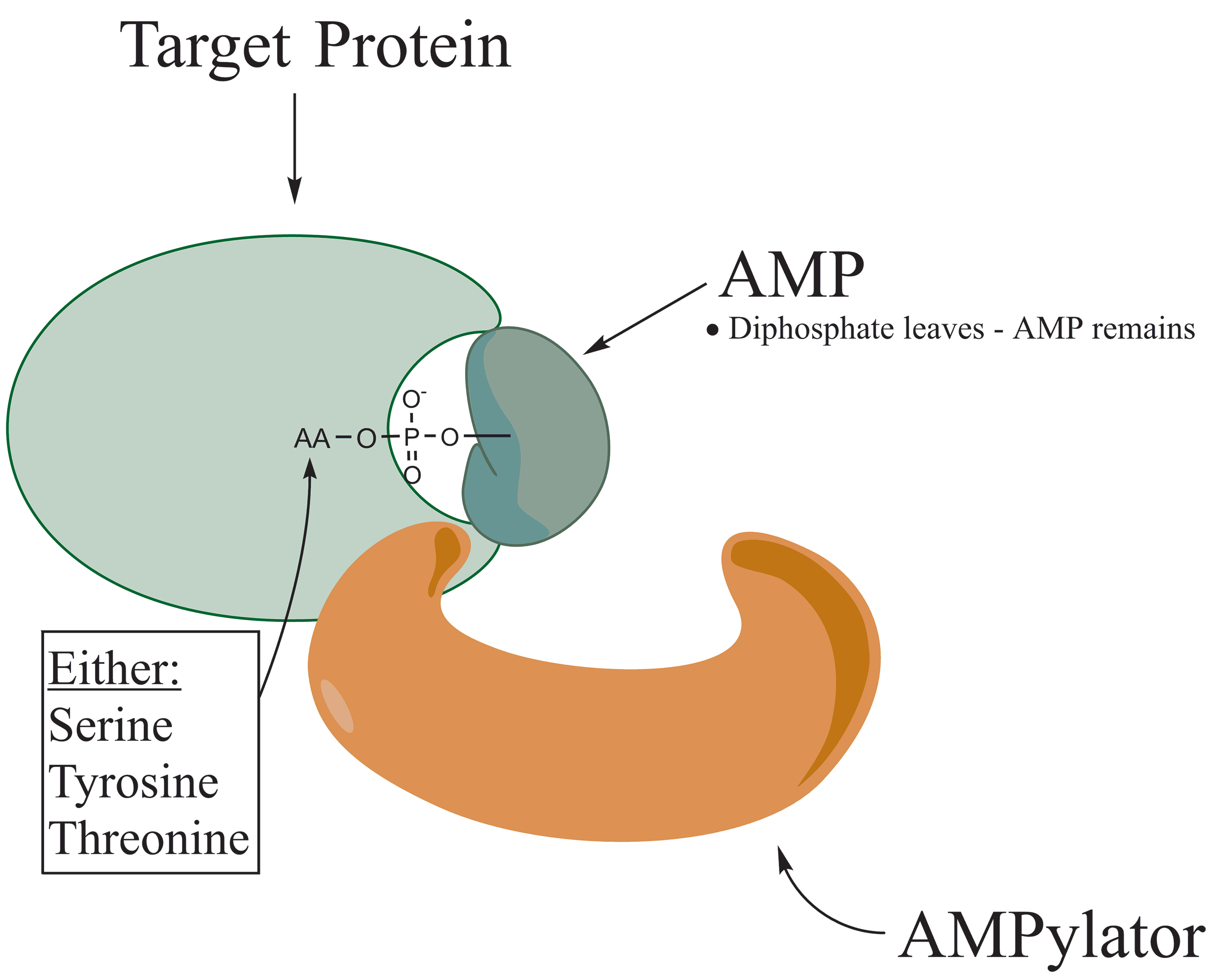 The ampylation of a target protein by the AMPylator. The peptide bond is shown as well as the amino acid used.